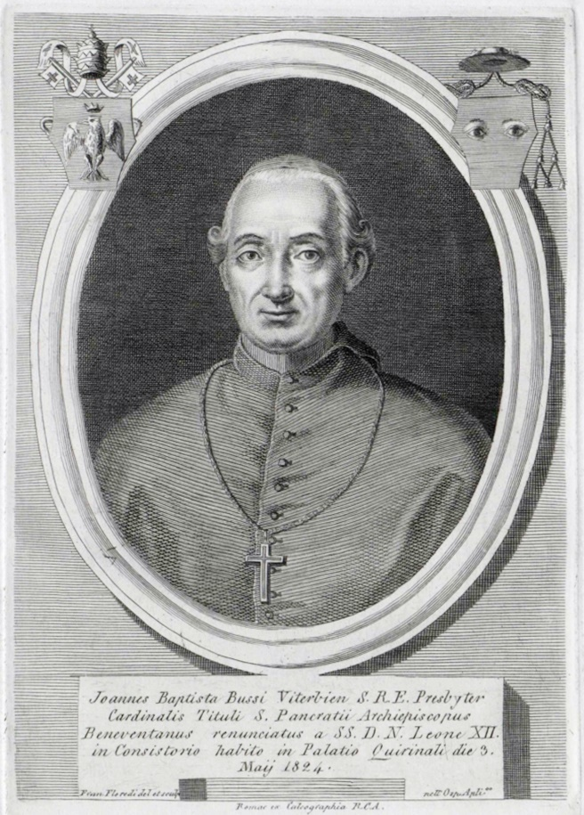 Kardinal Giovanni Battista Bussi (1755-1844)